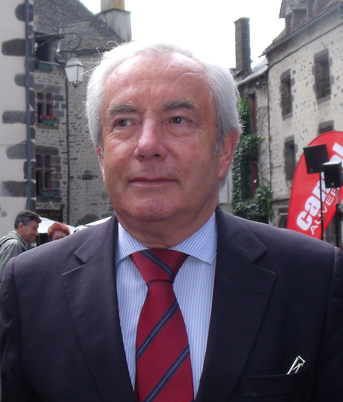 Alain Marleix at Salers